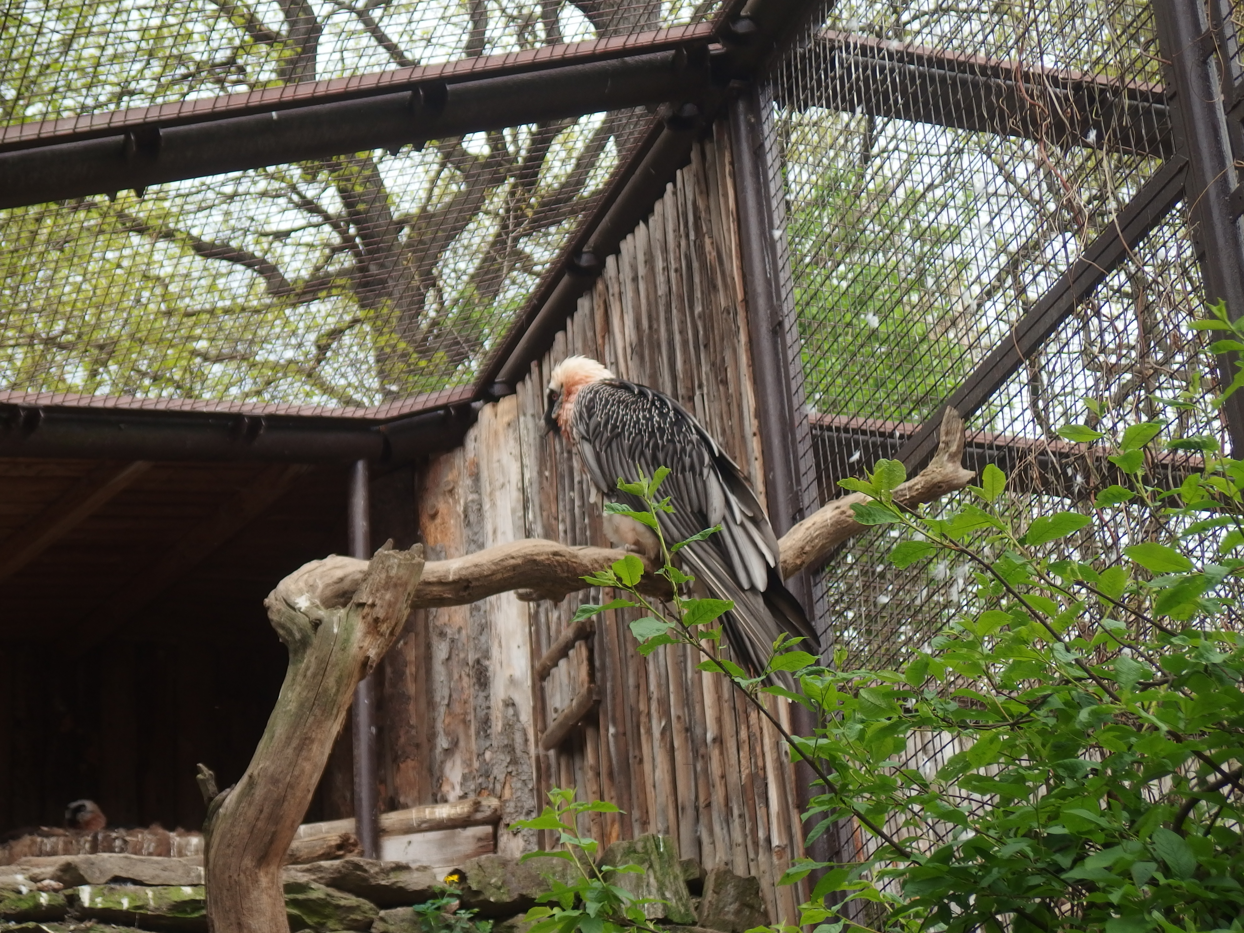 Zoopark Chomutov, Czech Republic. Bearded vulture